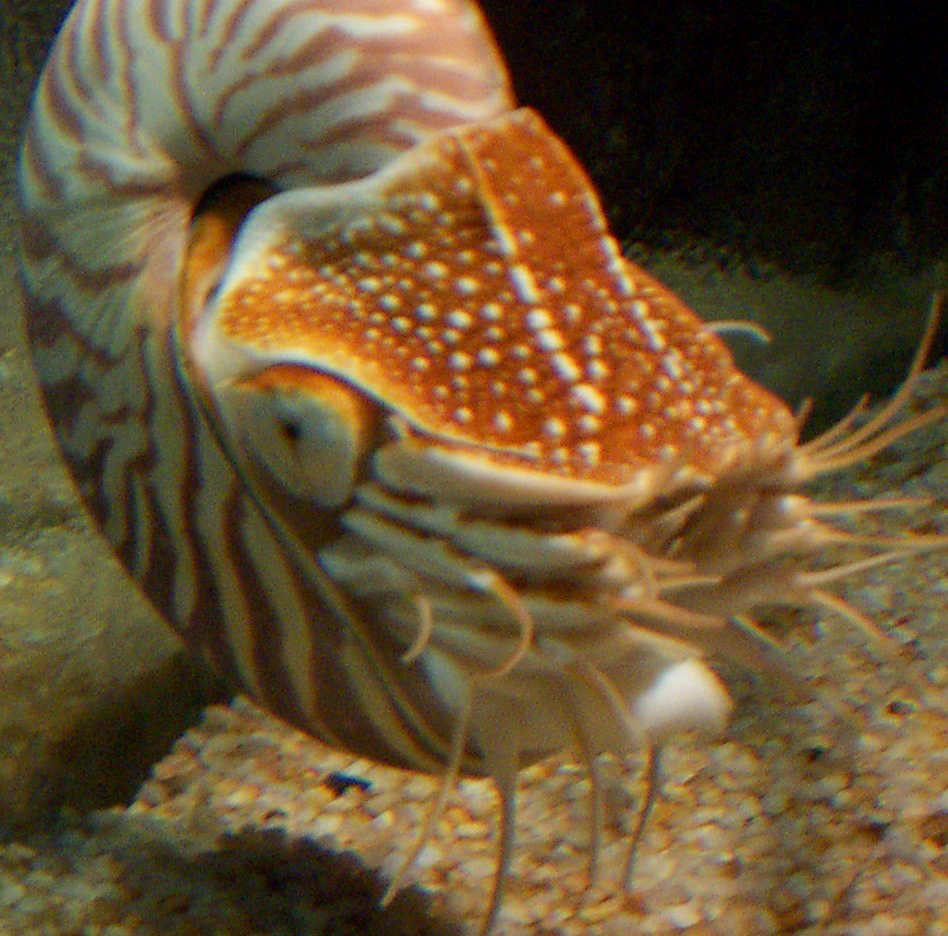 Nautilus, photographed at Siam Ocean World aquarium, Bangkok